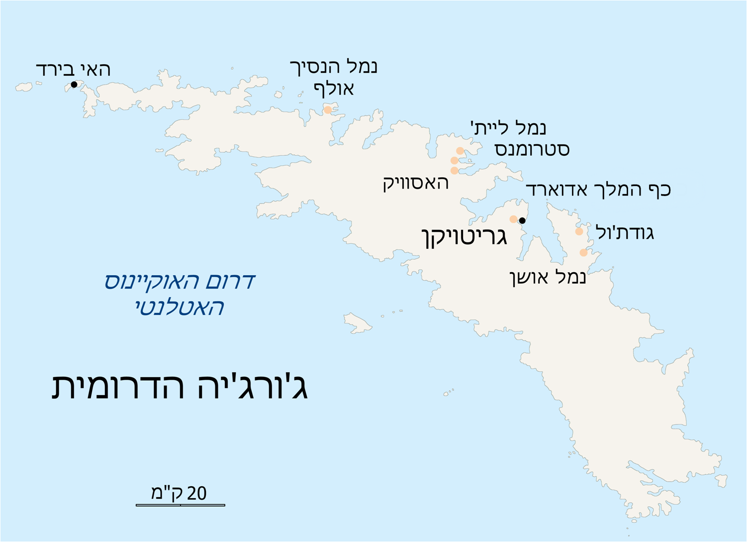 Map of South Georgia Island with Hebrew translation.